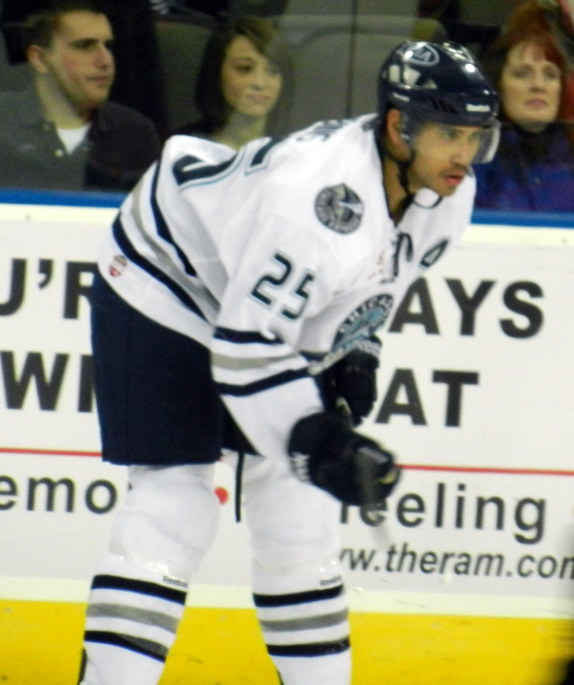 Bobby Robins playing for the Chicago Express during the 2011-12 ECHL season